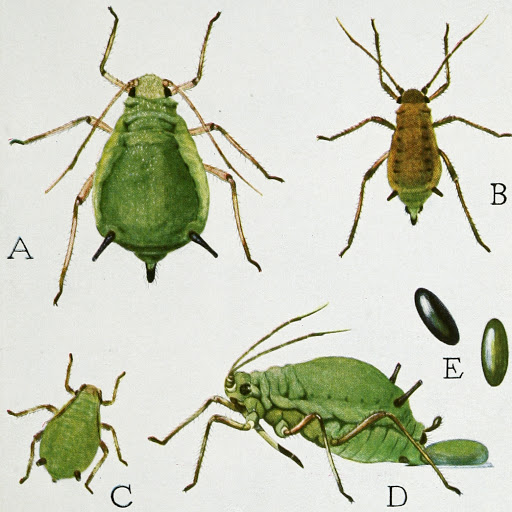 Strawberry aphid vectors, such as Chaetosiphon fragaefolii, is of genus Chaetosiphon, which are the primary causes of problems seen in strawberry plants worldwide. These vectors infiltrate strawberry plants, and appear to be either translucent yellow-white to pale green-yellow in color. The body length of C. fragaefolii is roughly 0.9-1.8mm long, while the antennae are 0.9-1.1 times the body length. Damage to plants are caused by aphid vectors sucking on the sap from plants, causing the observed symptoms of Strawberry Crinkle Virus (SCV). These vectors can be infected with this virus in as little as 24 hours from birth, while a latent period of 10-19 days are observed. Once infected, this vector can transmit SCV for up to 2 weeks.